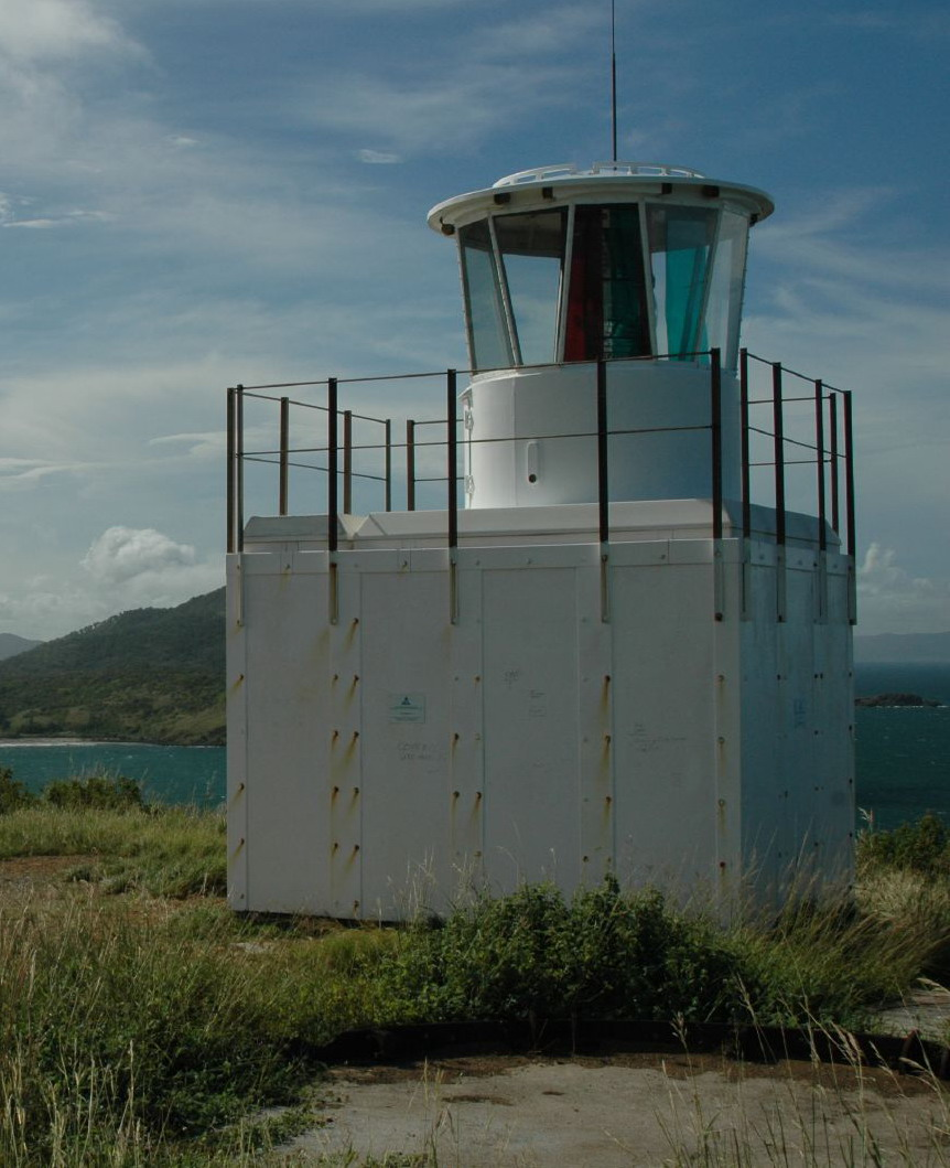 The Lighthouse At Archer Point, Far North Queensland